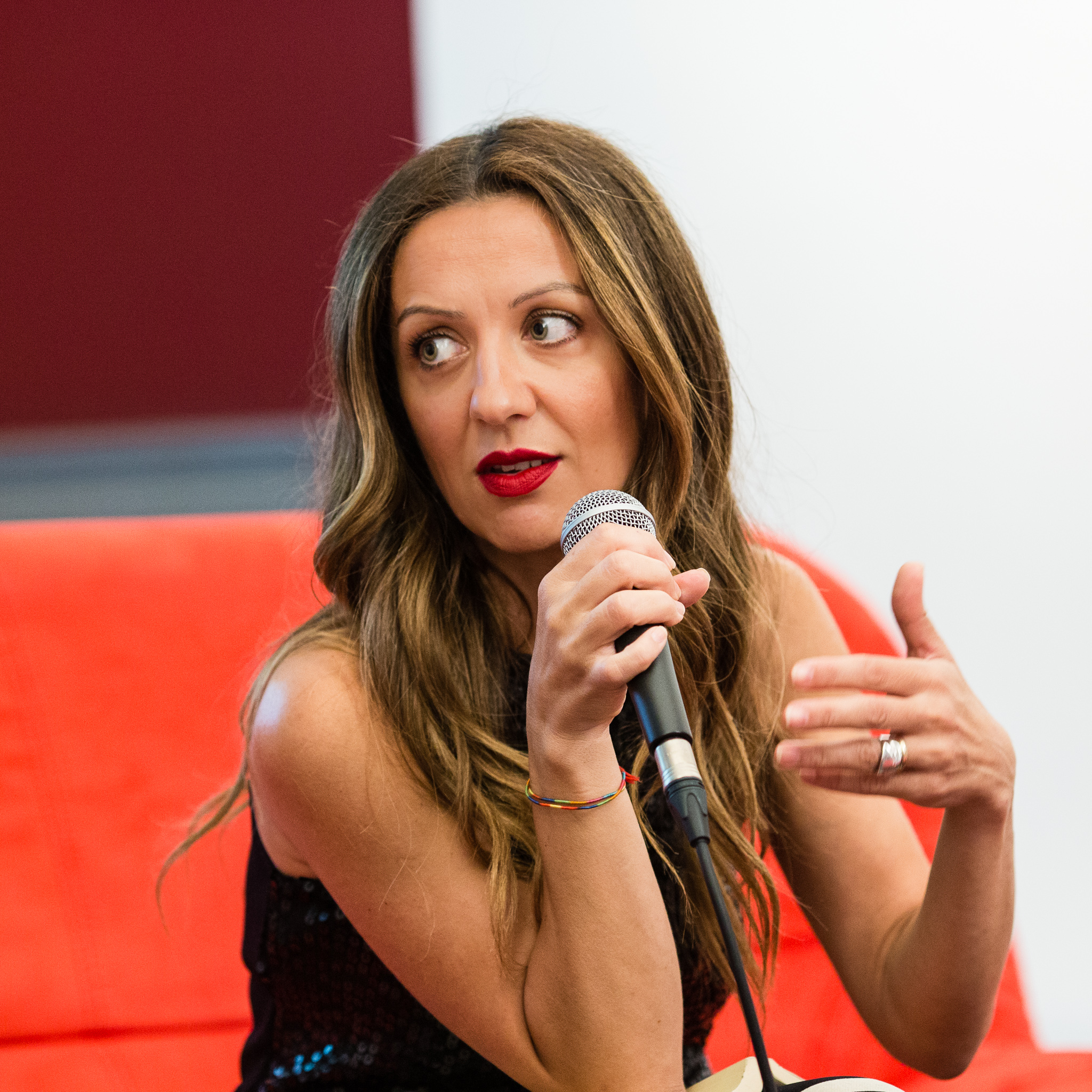 Aslı Perker on Authors’ Reading Month 2018, Wrocław, Poland